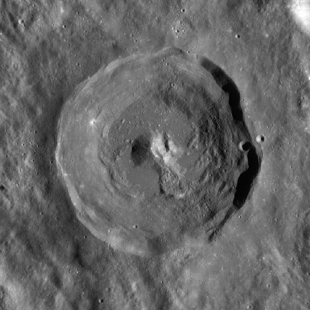 LRO image of Leuschner crater, on the far side of the moon, from the Wide Angle Camera (WAC).